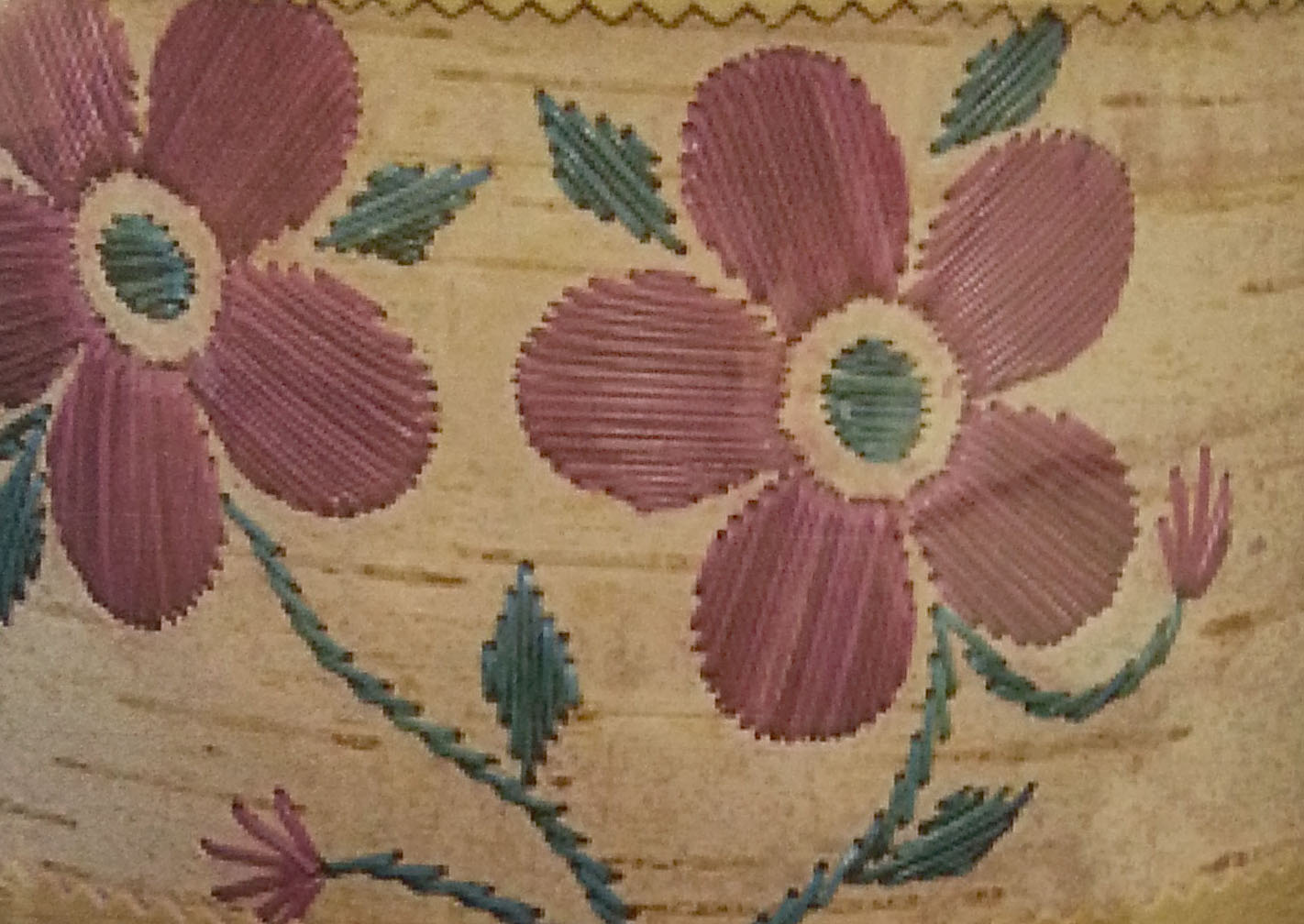 Photo of artifact taken by me at the Willow Bunch Museum, SK.